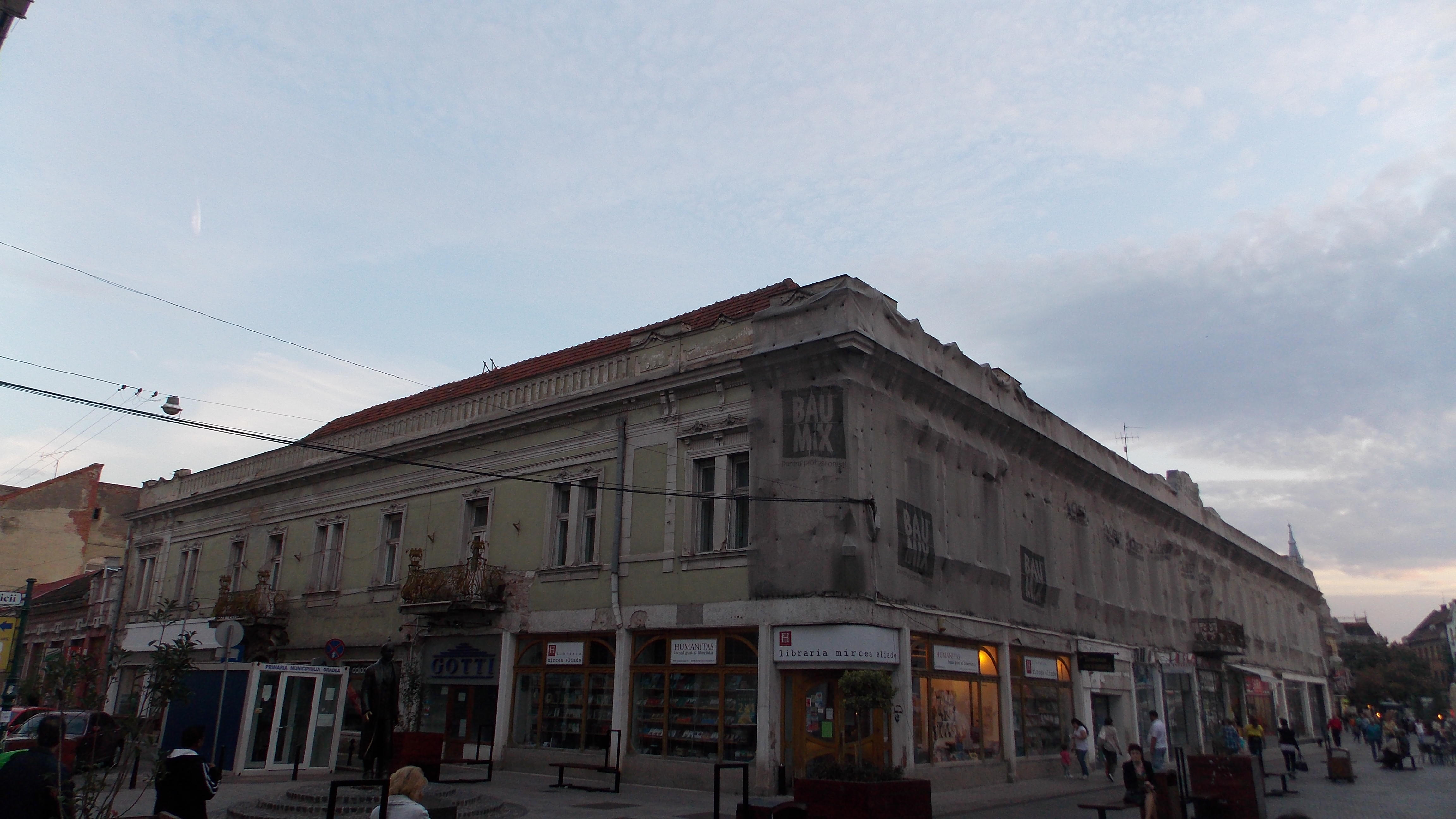 "Parc" Hotel - Oradea